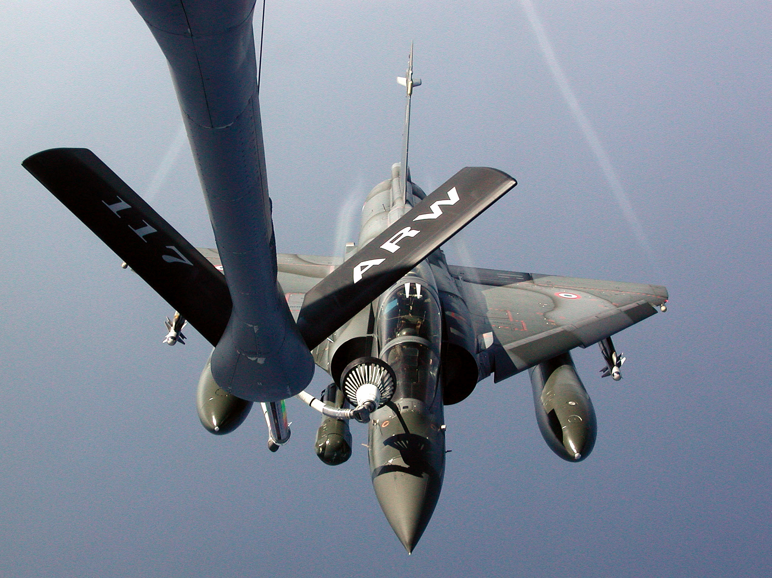 A KC-135 Stratotanker from the Alabama Air National Guard's 117th Air Refueling Wing refuels a French Mirage 2000. Tankers are essential to sustaining coalition air operations over Iraq and Afghanistan.